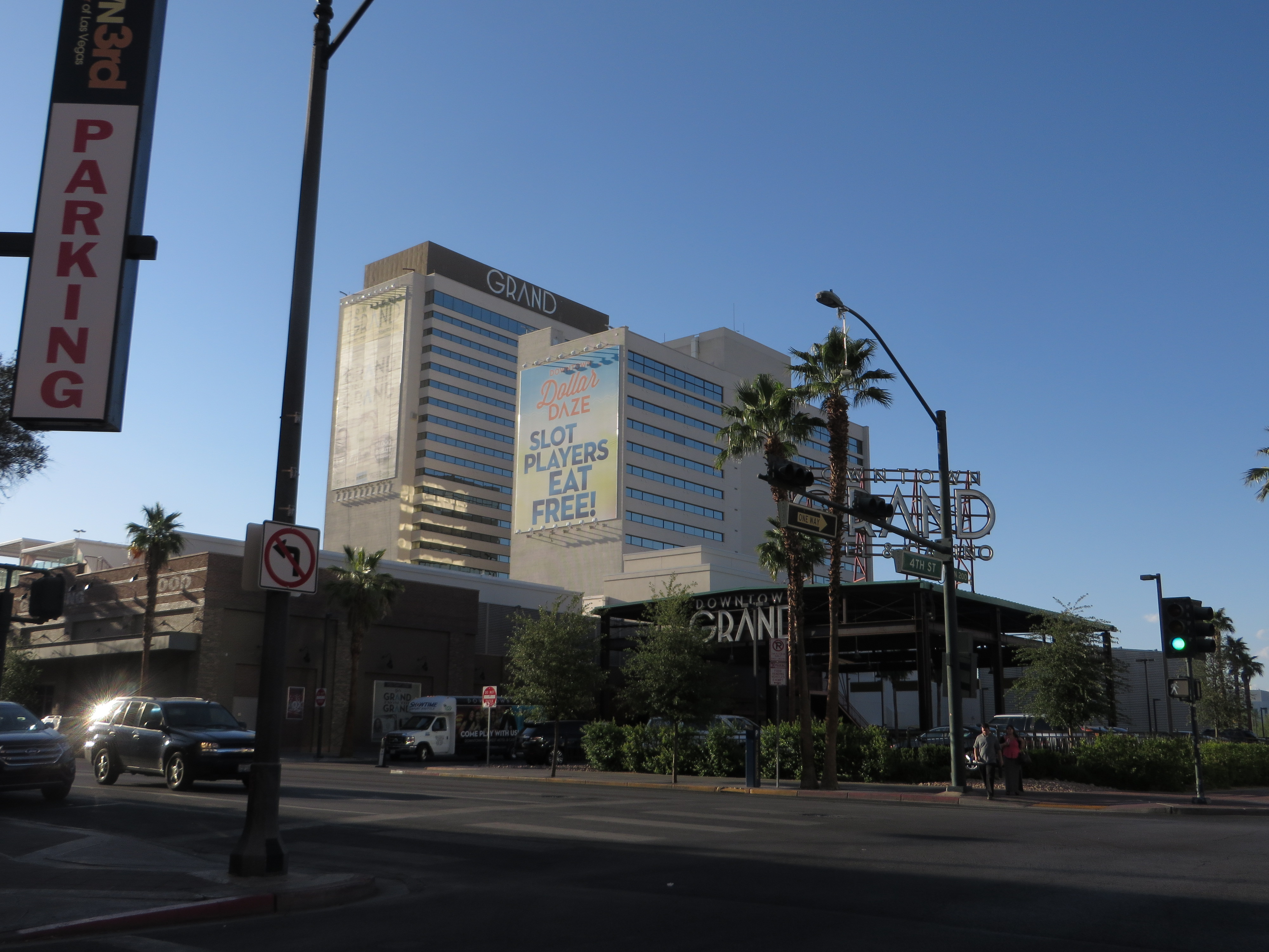 The Downtown Grand Las Vegas, formerly the Lady Luck Hotel & Casino, is a hotel and casino in Downtown Las Vegas, Nevada, owned by the CIM Group and operated by Fifth Street Gaming. The Downtown Grand is the centerpiece of Downtown3rd, a new neighborhood and entertainment district under development in downtown Las Vegas. Set on 6.27 acres (2.54 ha) at 3rd Street and East Ogden Avenue, the Downtown Grand has two hotel towers: to the east, the 18-story Casino Tower built in 1985 with 297 rooms, and to the west, the 25-story Grand Tower with 334 rooms. The East Tower is connected to the ground level casino. The property is served by a four-level parking garage and features several restaurants and entertainment venues along 3rd Street. These popular establishments include Triple George Grill, Sidebar, and Hogs and Heifers Saloon.